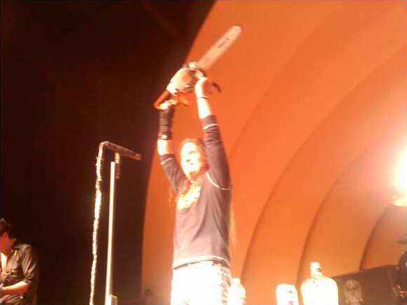 Jesse Dupree of Jackyl holding chainsaw while singing "The Lumberjack"